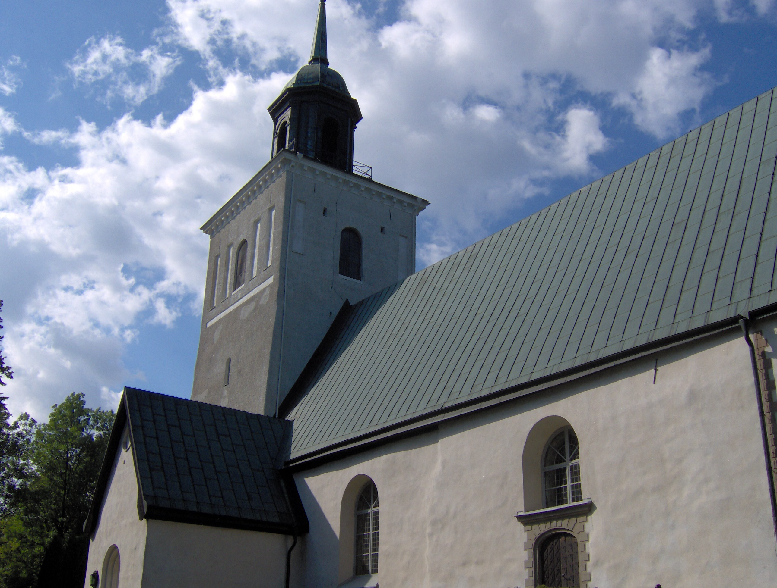 Picture of Sollentuna Kyrka.